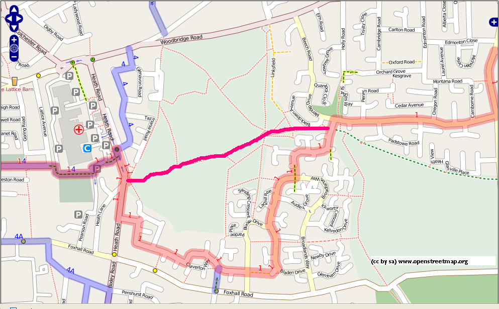 A (cc-by-sa) map from gravitystorm using OpenStreetMap data showing the current route for National Cycle Route 1 to the South of Rushmere Common and also a local cycle route along Woodbridge Road to the North for the common. Sustrans wish to route the NCR1 across the common along the path shown in Mauve. This map may be incomplete, and may contain errors. Don't rely solely on it for navigation.